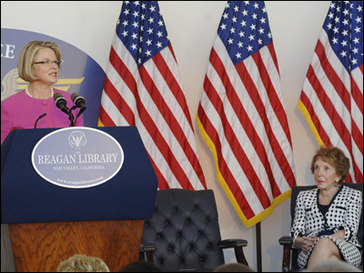 Education Secretary Margaret Spellings delivers the keynote address at the grand opening of the Air Force One Discovery Center at the Ronald Reagan Presidential Library and Museum in Simi Valley, California. Former First Lady Nancy Reagan is seated at the right.